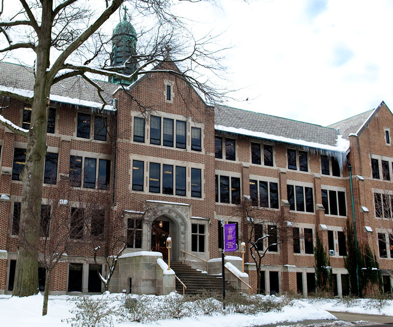 Saint Joseph Academy grounds